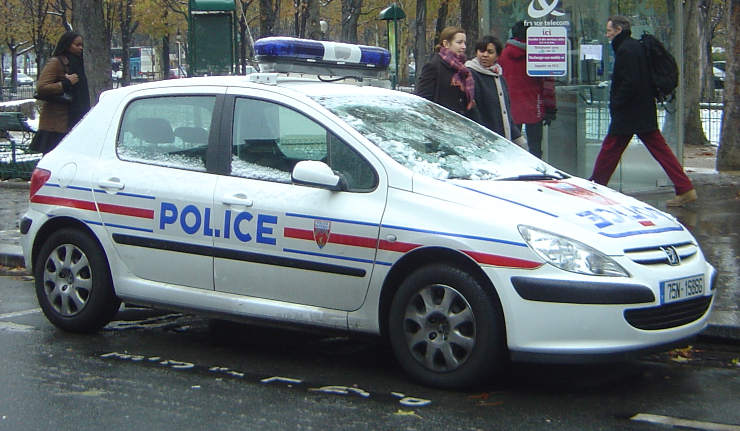 French National Police forces in front of the Grand Palais in Paris, France, with "POLICE" in mirror writing ("ECILOP").